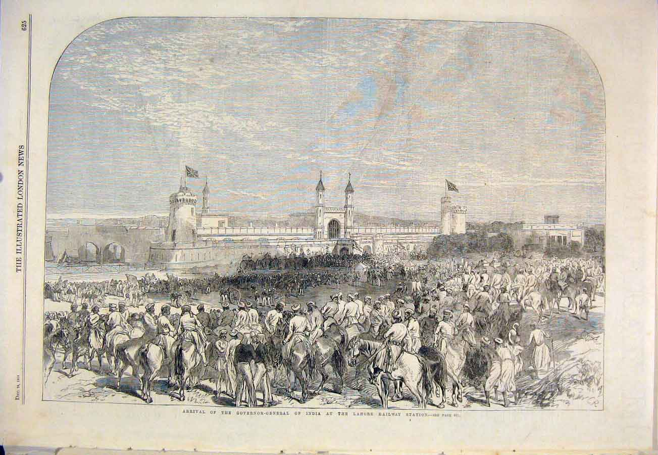 The Governor-General arrives at the Lahore railway station, from the Illustrated London News, 1864